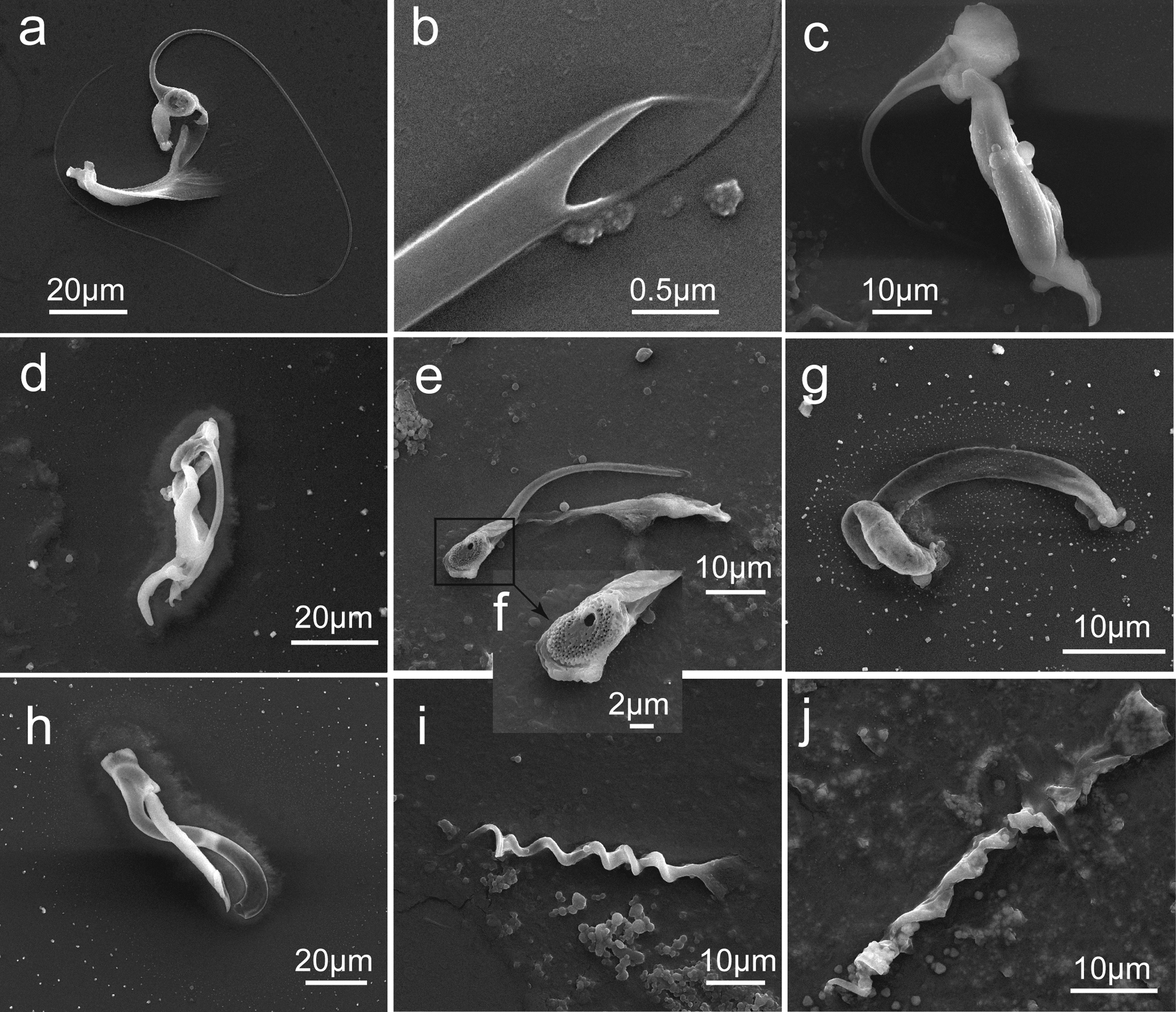 Figure 9 of the paper Scanning electron micrographs of genital sclerotized parts of species of Cichlidogyrus, Scutogyrus and Enterogyrus. (a) Male copulatory complex of Cichlidogyrus cirratus; (b) penis end of male copulatory complex of Cichlidogyrus cirratus; (c) male copulatory complex of Cichlidogyrus sclerosus; (d) male copulatory complex of Cichlidogyrus thurstonae; (e) male copulatory complex of Scutogyrus longicornis; (f) penis basement of Scutogyrus longicornis; (g) vagina of Scutogyrus longicornis; (h) male copulatory complex of Cichlidogyrus halli; (i) penis of Enterogyrus malmbergi; (j) penis of Enterogyrus coronatus.